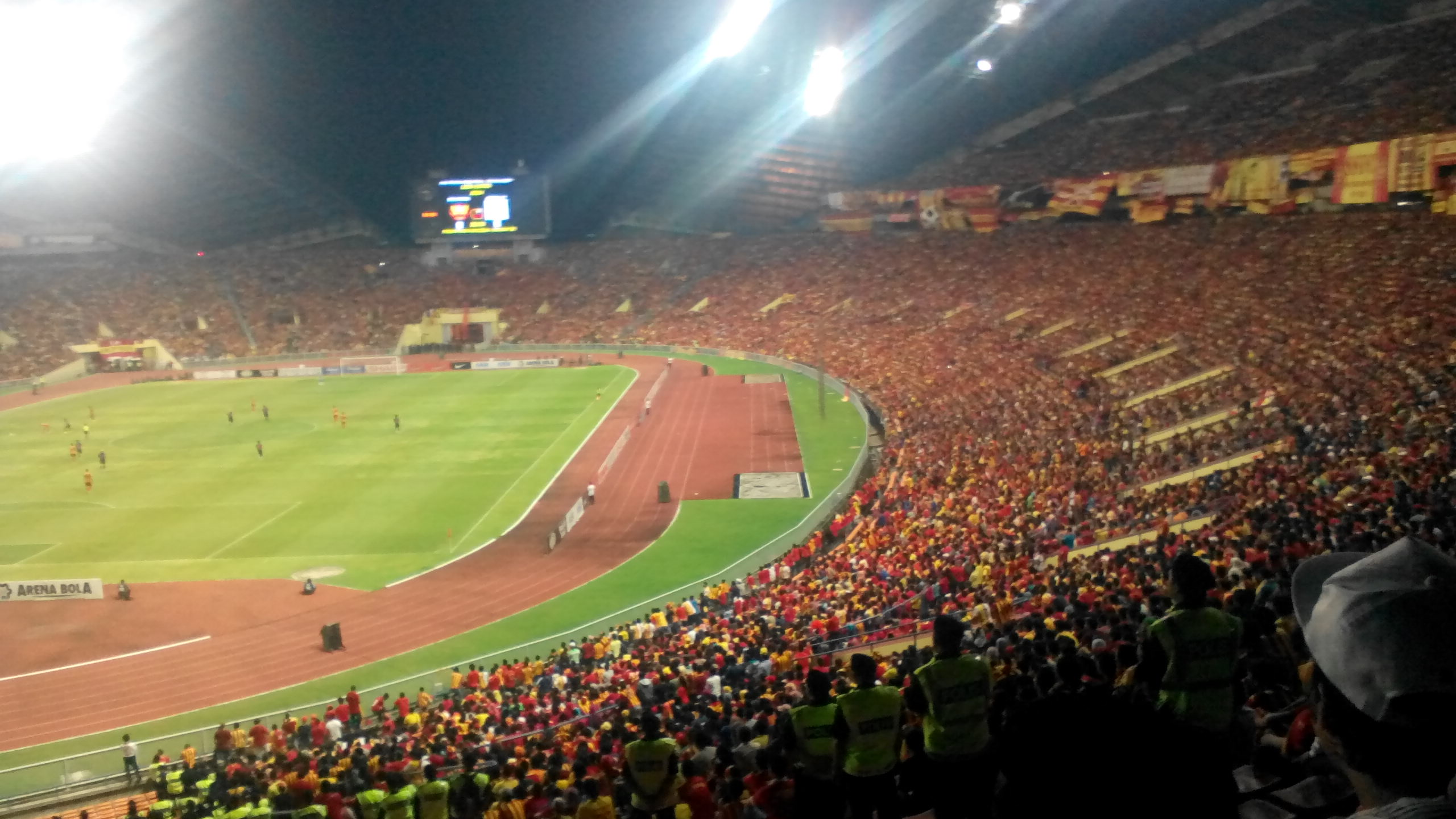 Fullhouse in Shah Alam